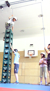 Children at school on teambuilding